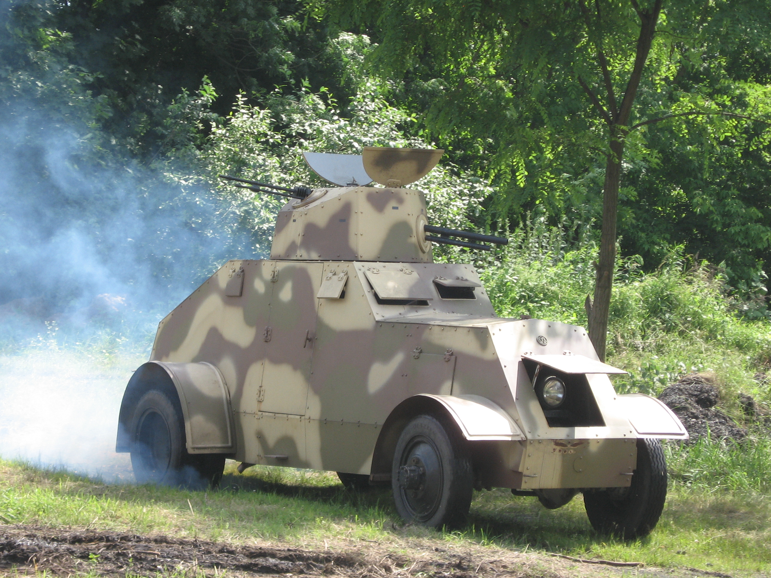 Reenactment of a battle fought during the 1939 Invasion of Poland. VII Aircraft Picnic in Kraków.